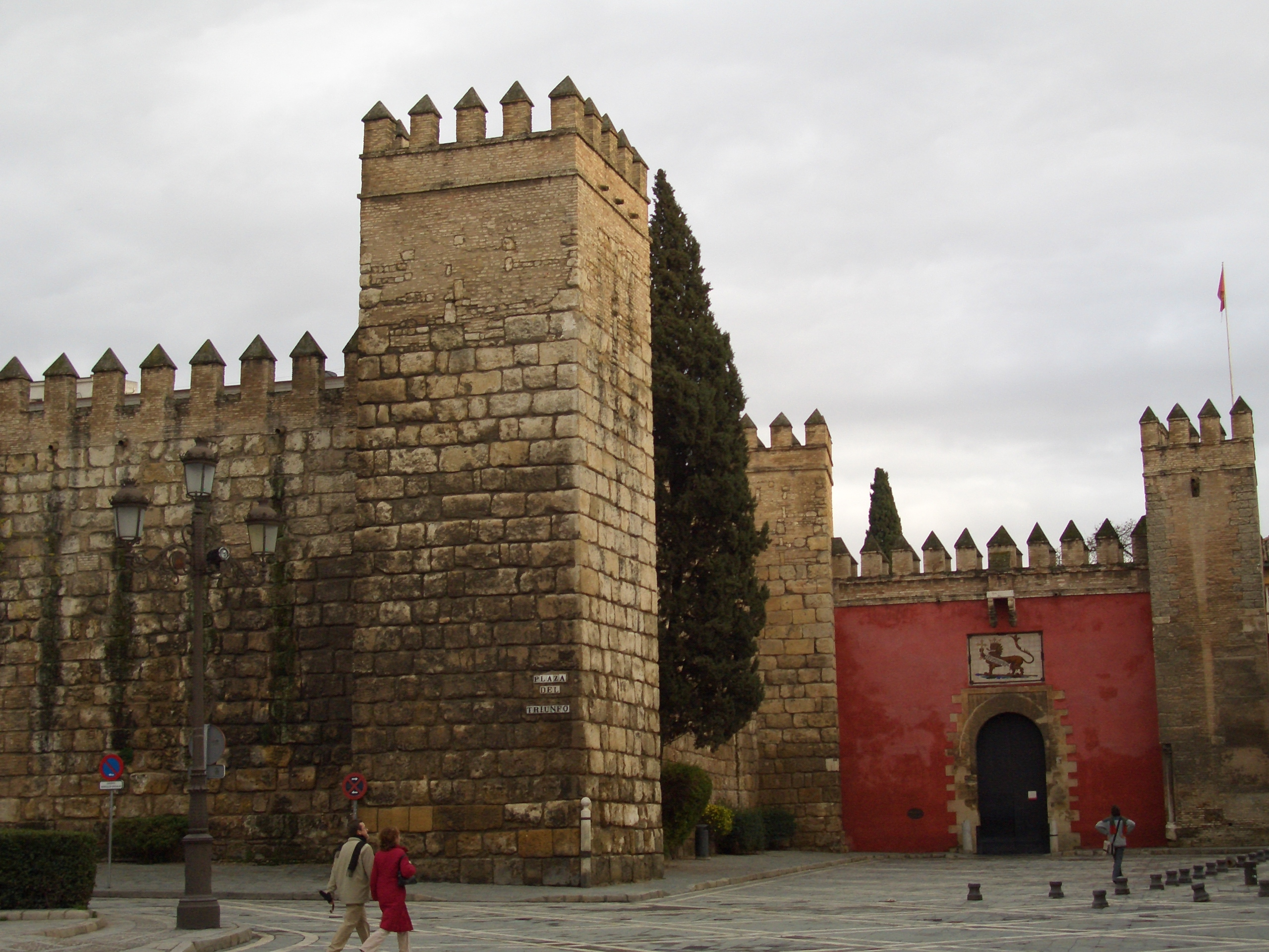 Alcázar of Seville, Seville, Spain.